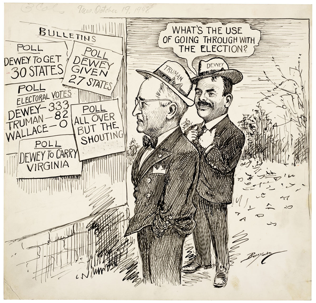 Berryman cartoon Oct 19, 1948: polls show Dewey ahead so why hold election? not copyright Other information not copyright; fair use is not needed This cartoon concerns the 1948 presidential election. President Harry S. Truman, the Democratic Presidential nominee in the election of 1948, was widely expected to lose by a large margin to Republican nominee Thomas E. Dewey. This cartoon, printed just days before the election, shows Dewey confidently looking over the shoulder of a frowning Truman as they read bulletins showing the prevailing public opinion at the time. Despite several polls predicting a landslide victory for Dewey, Truman won the election in one of the biggest and most well-known political upsets in U.S. history. Journalists at the Chicago Tribune were so convinced that Dewey would win that they prematurely printed the headline "Dewey Defeats Truman" on the front page.